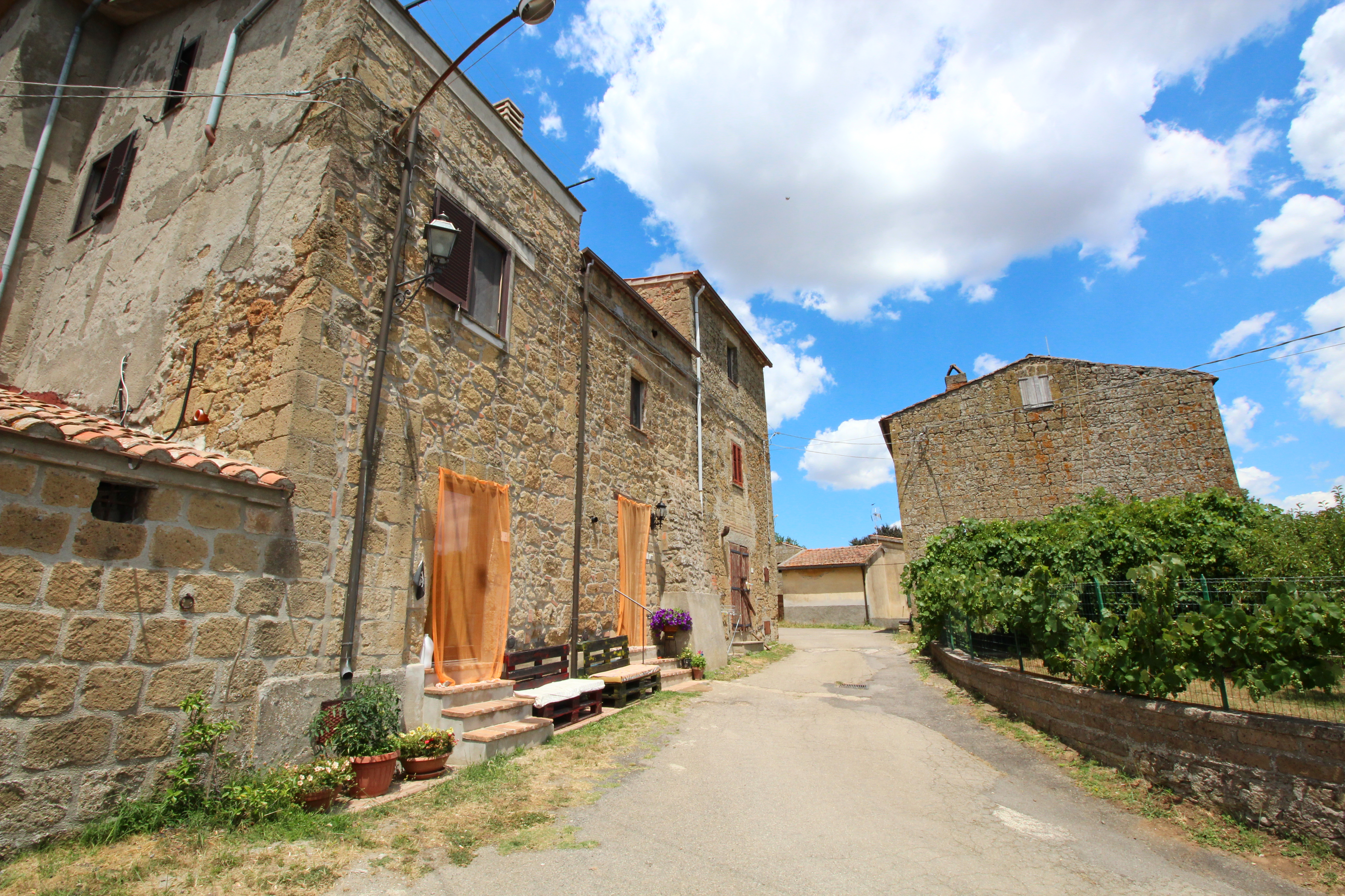 Cerreto, hamlet of Sorano, Province of Grosseto, Tuscany, Italy